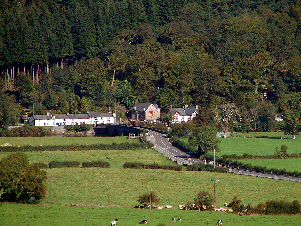 Pont ar Ddyfi, near to Machynlleth, Powys, Great Britain. As seen with a telephoto shot from Wylfa, about one and a quarter miles to the south. As a matter of interest, this is a 'cross-myriad' picture, from the north of SN to the south of SH.